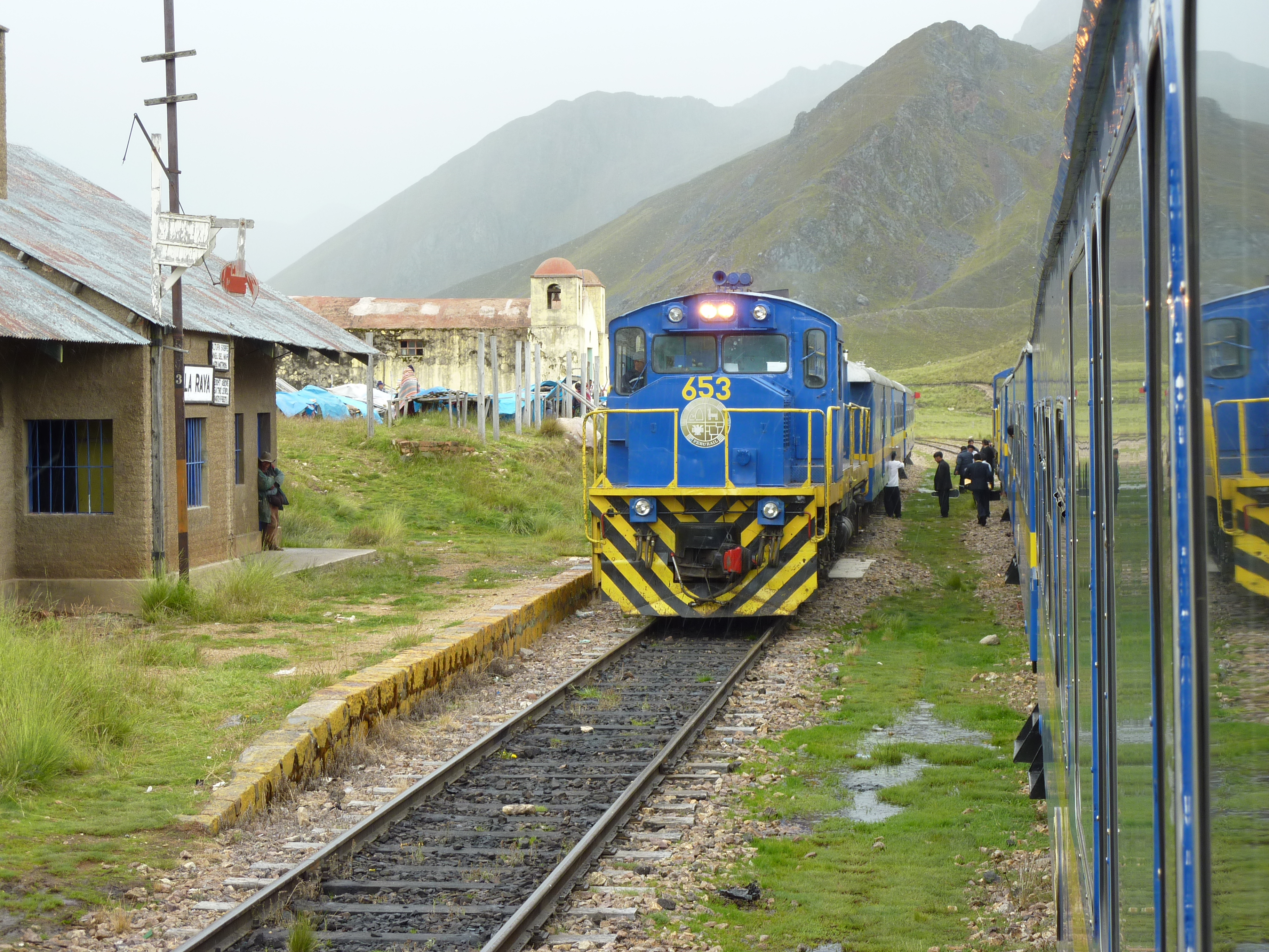 Railway station La Raya in Peru